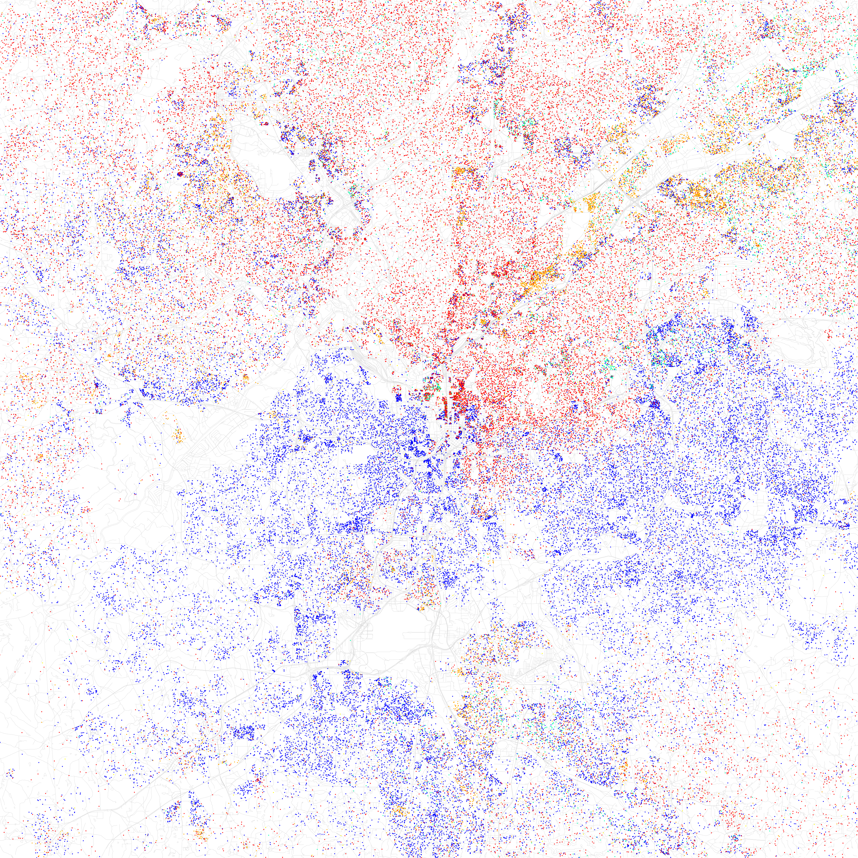 Maps of racial and ethnic divisions in US cities, inspired by Bill Rankin's map of Chicago, updated for Census 2010. Red is White, Blue is Black, Green is Asian, Orange is Hispanic, Yellow is Other, and each dot is 25 residents. Data from Census 2010. Base map © OpenStreetMap, CC-BY-SA